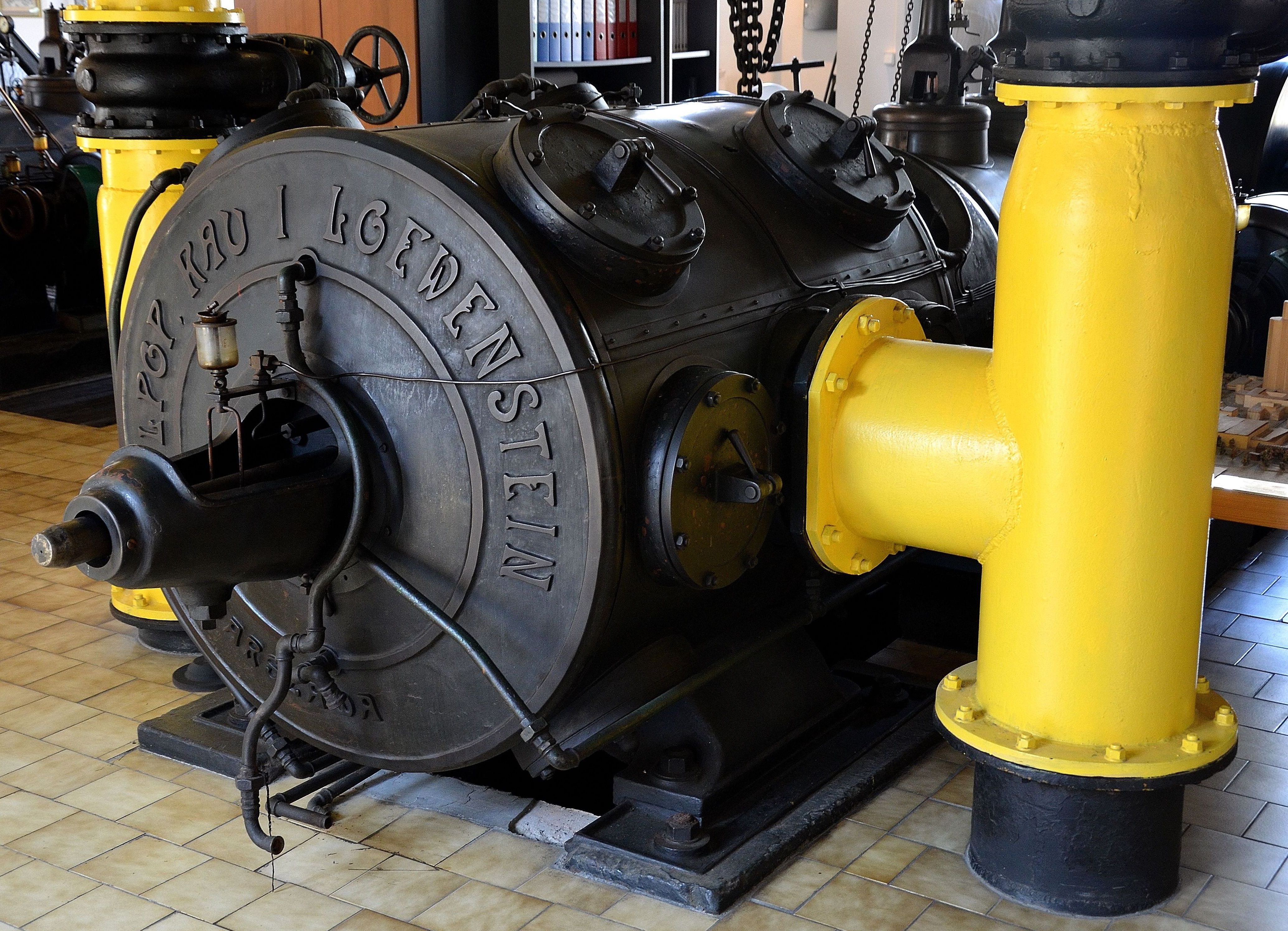 Gas compressor manufactured by Lilpop, Rau & Loewenstein in the 1920s in the Gas Museum in Warsaw